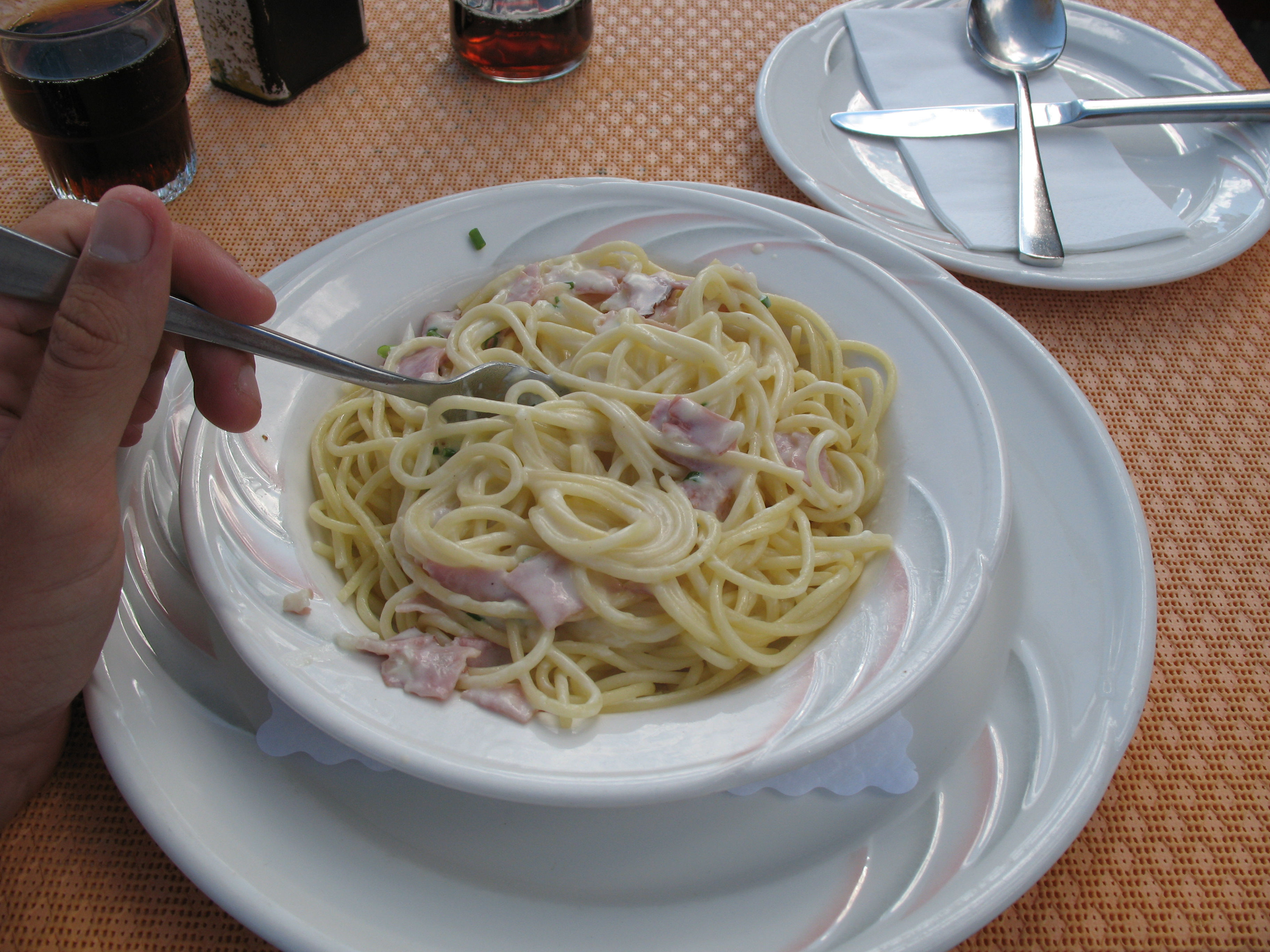 Pasta with bacon from Hotel Eggishorn, Fiescheralp, Switzerland